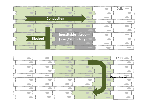 Cartoon showing a wave of depolarisation traversing excitable tissue undergoing wavebreak and re-entry